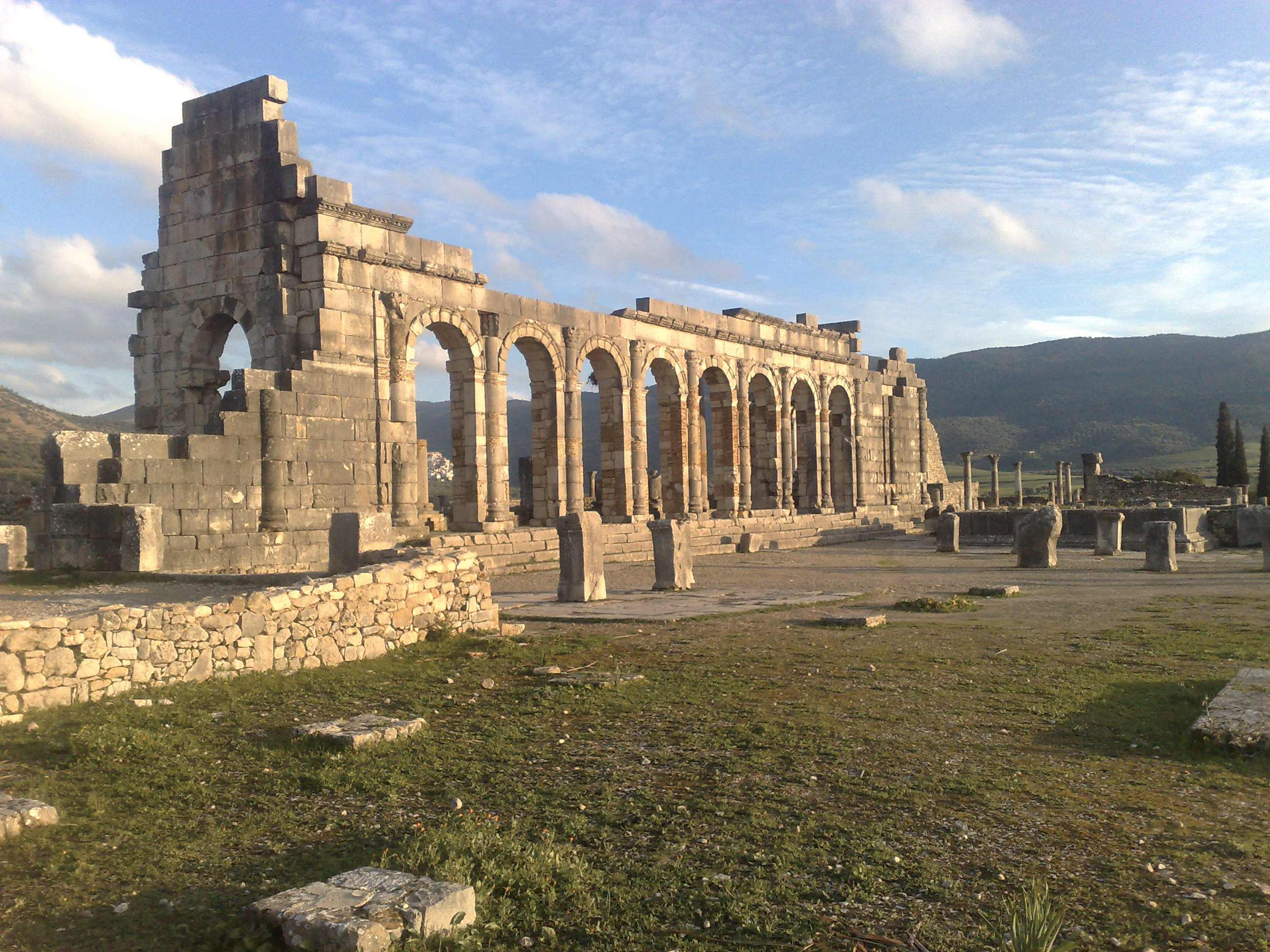 AWIB-ISAW: Volubilis (VII) The arched judiciary basilica in the Roman forum at Volubilis, Morocco. by Erik Hermans (2009) copyright: 2009 Erik Hermans (used with permission) photographed place: Volubilis [1] Published by the Institute for the Study of the Ancient World as part of the Ancient World Image Bank (AWIB). Further information: [2].